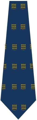 Blue Coat School First XI Tie